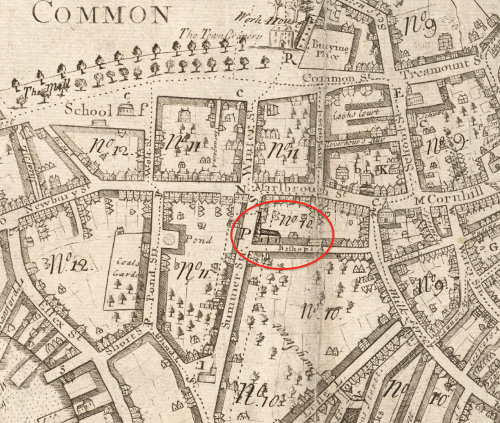 Detail of 1743 map of Boston, Massachusetts, by William Price.